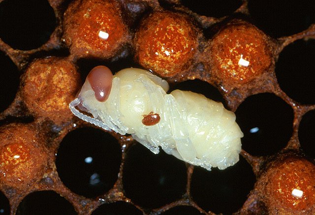 Adult female varroa mite from Image Number K8536-1 Visible as a dark, oval shape, an adult female varroa mite feeds on the midsection of a developing worker bee. Photo by Scott Bauer.